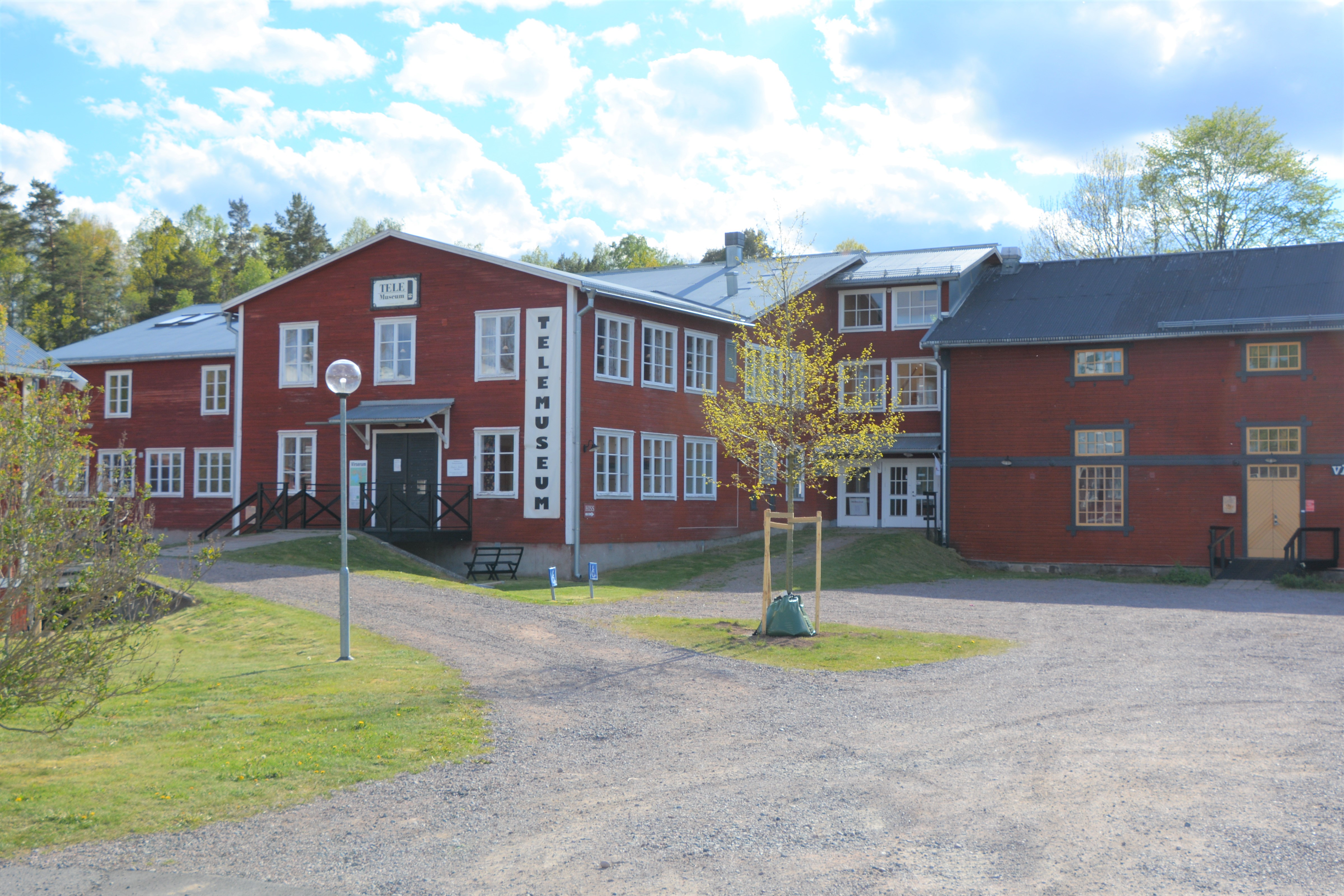 Dackestop, Virserum, med Telemuseum